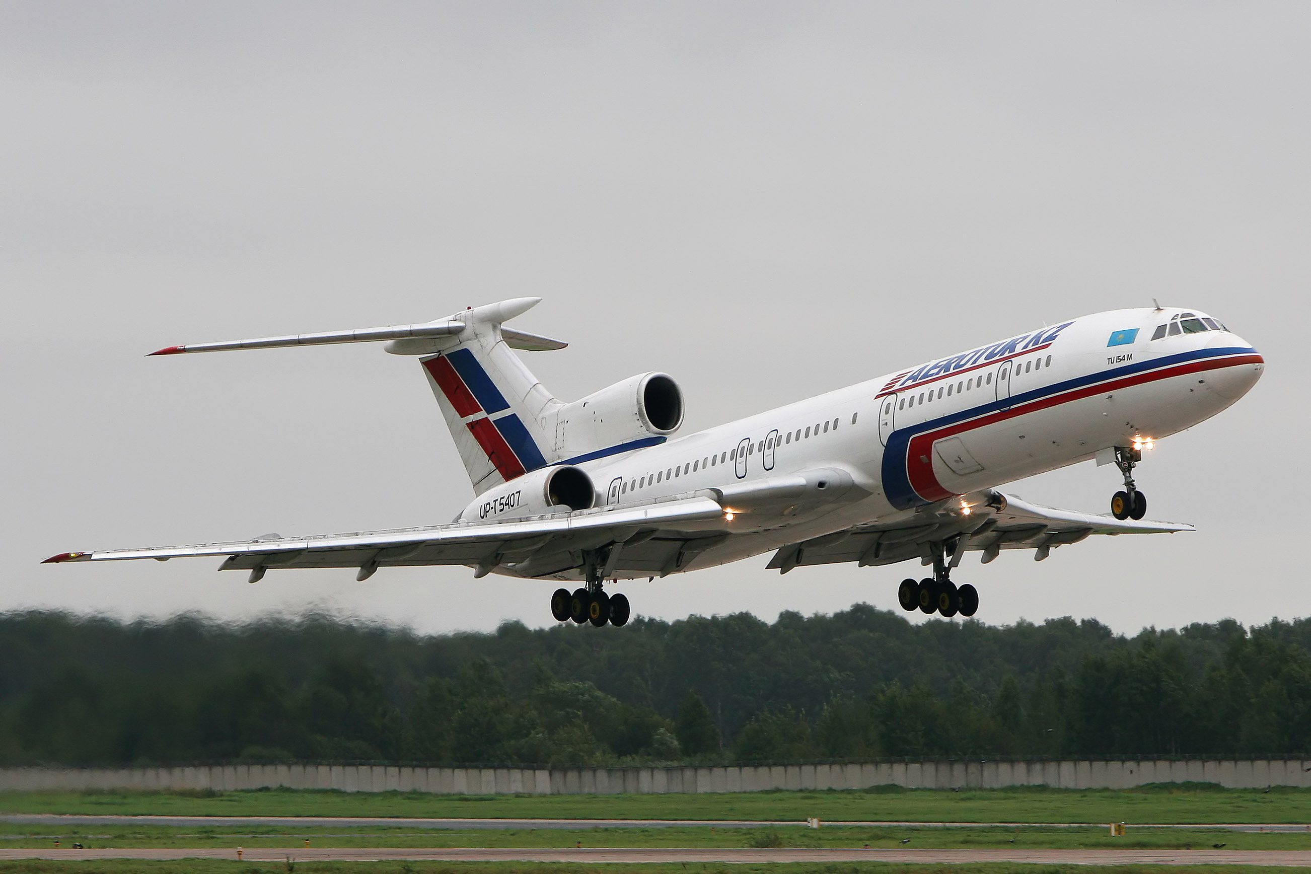 Aerotur KZ Tupolev Tu-154M at Domodedovo International Airport